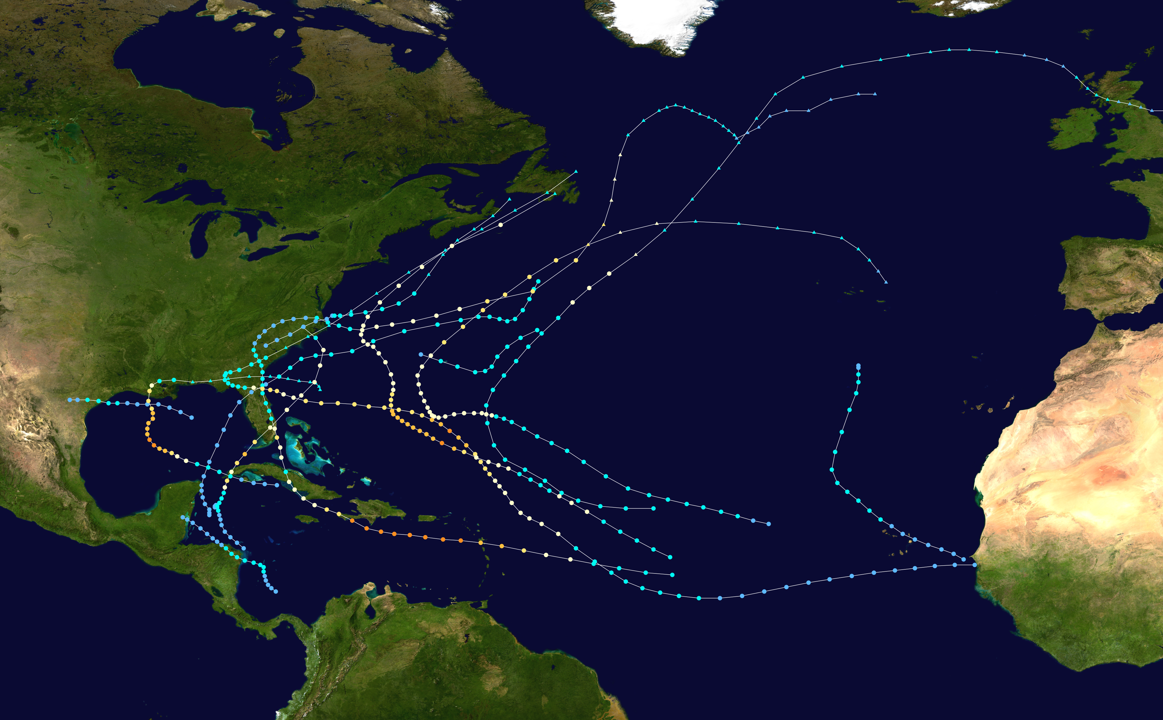 This map shows the tracks of all tropical cyclones in the 1964 Atlantic hurricane season. The points show the location of each storm at 6-hour intervals. The colour represents the storm's maximum sustained wind speeds as classified in the Saffir-Simpson Hurricane Scale (see below), and the shape of the data points represent the type of the storm. Saffir–Simpson scale Tropical depression≤38 mph≤62 km/h Category 3111–129 mph178–208 km/h Tropical storm39–73 mph63–118 km/h Category 4130–156 mph209–251 km/h Category 174–95 mph119–153 km/h Category 5≥157 mph≥252 km/h Category 296–110 mph154–177 km/h Unknown Storm type Tropical cyclone Subtropical cyclone Extratropical cyclone / Remnant low / Tropical disturbance / Monsoon depression